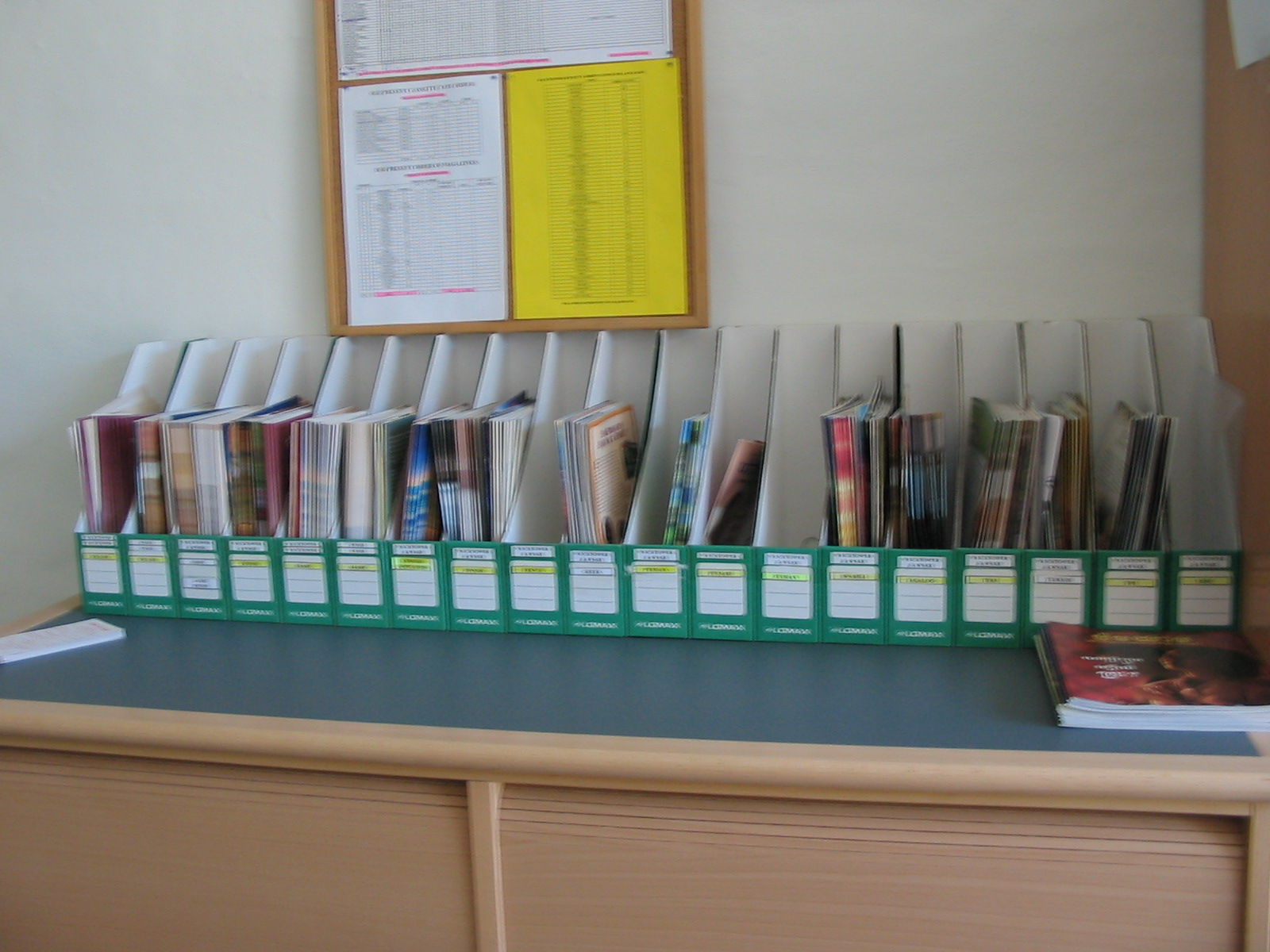 The Watchtower, published by the "Watch Tower Bible and Tract Society". Dutch